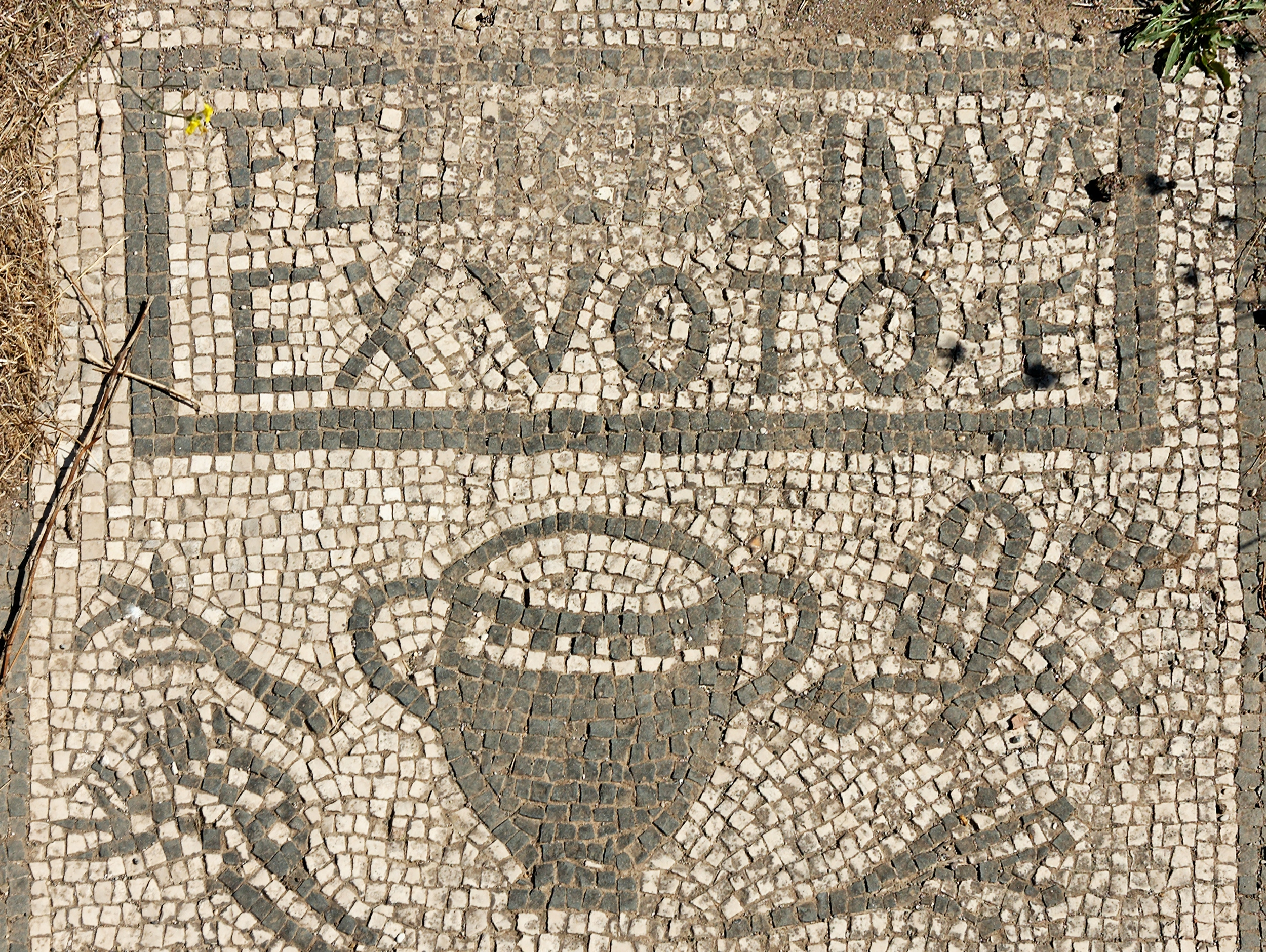 Mosaic with the inscription “Felicissimus ex voto f(ecit)” (Felicissimus made this ex-voto) and a krater, 2nd century AD. Mitreo di Felicissimus, Ostia Antica, Latium, Italy.